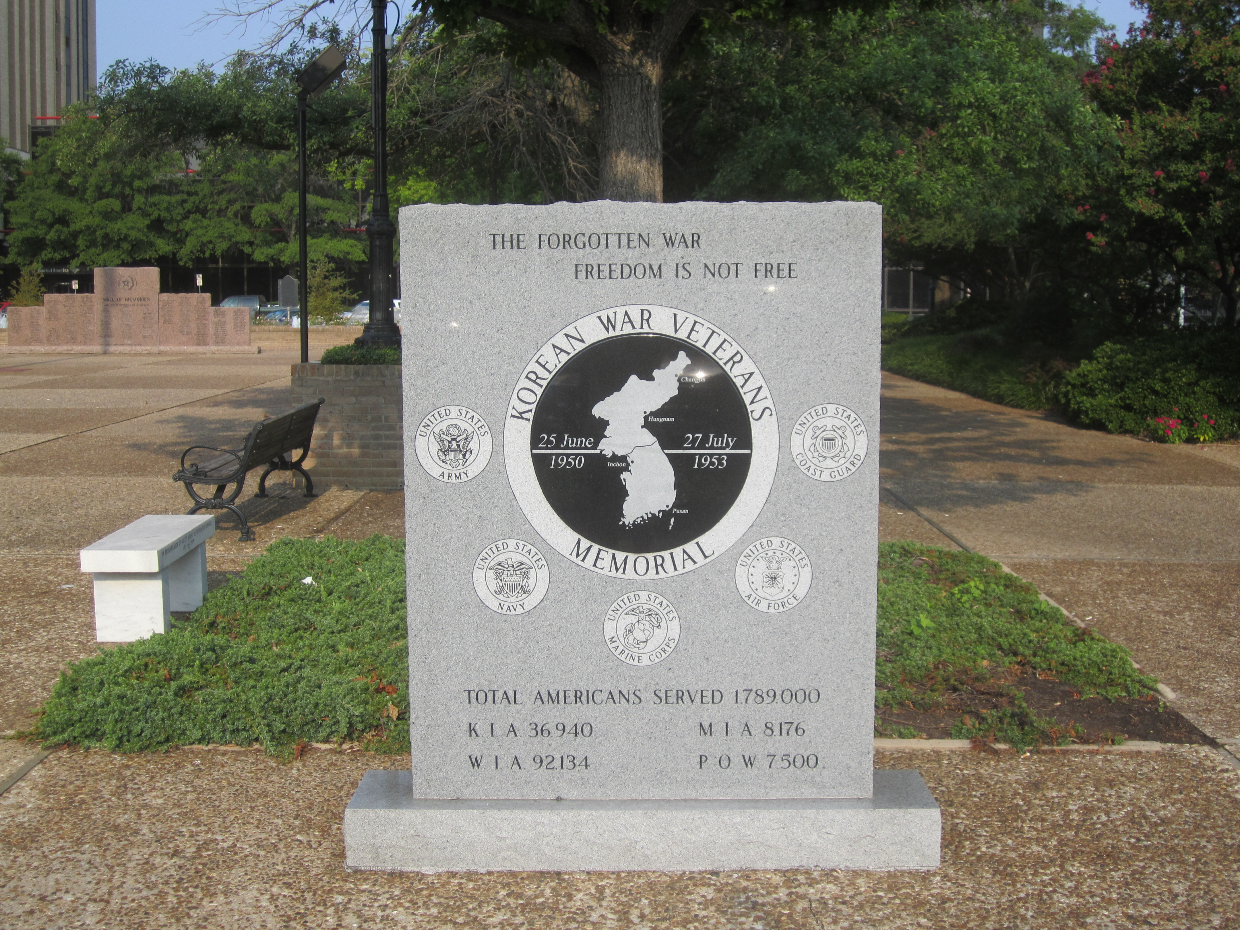 I took photo with Canon camera in Tyler, TX.